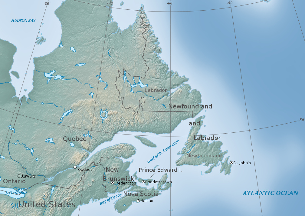 Map of Atlantic Canada and nearby areas created from public domain data at Natural Earth. Albert Equal Area projection on longitude 60W.